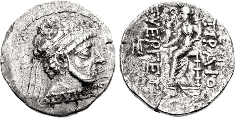 Coins of the Parthian vassal king Tiraios I.